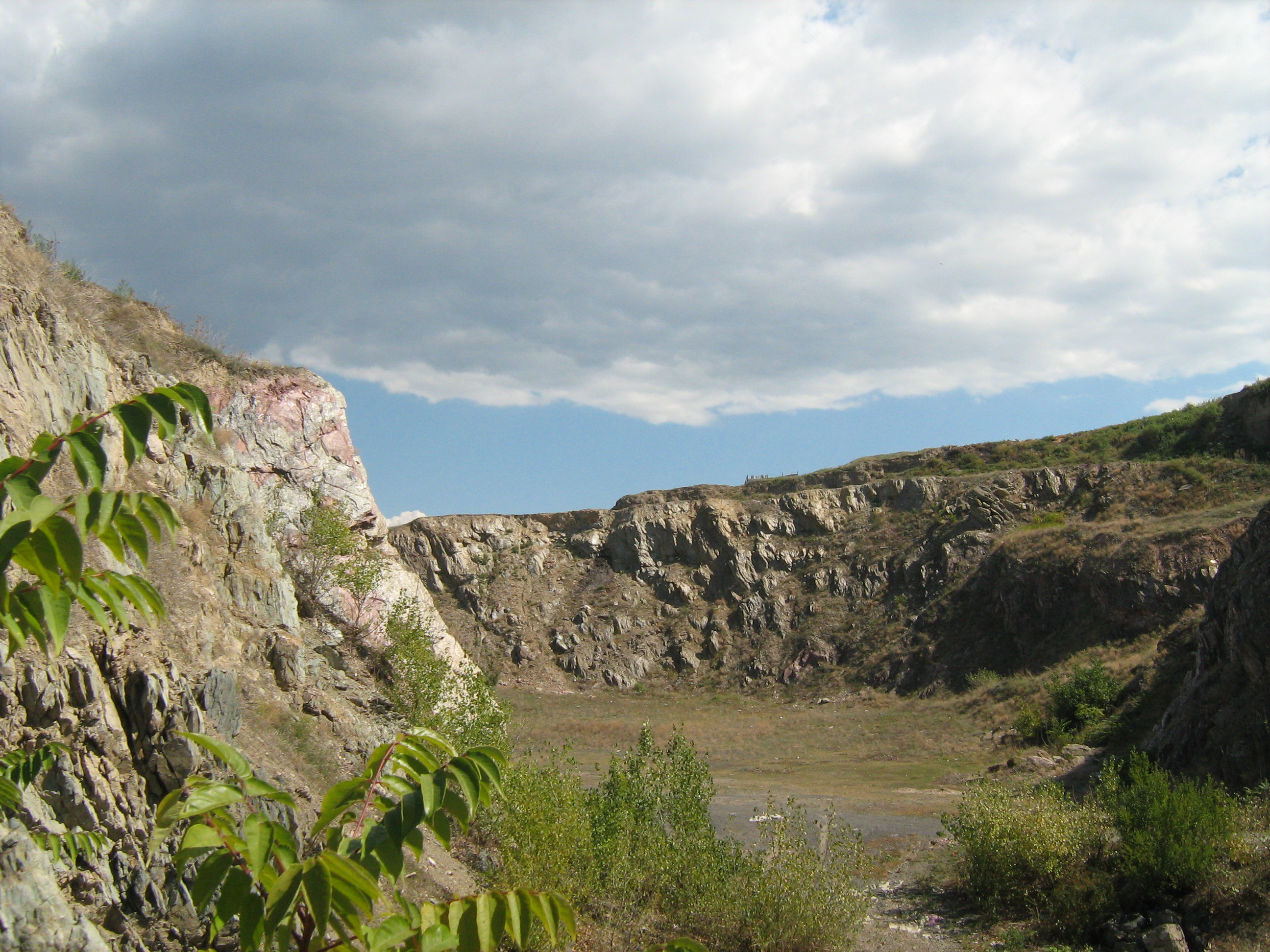 Isaccea - gallery 6